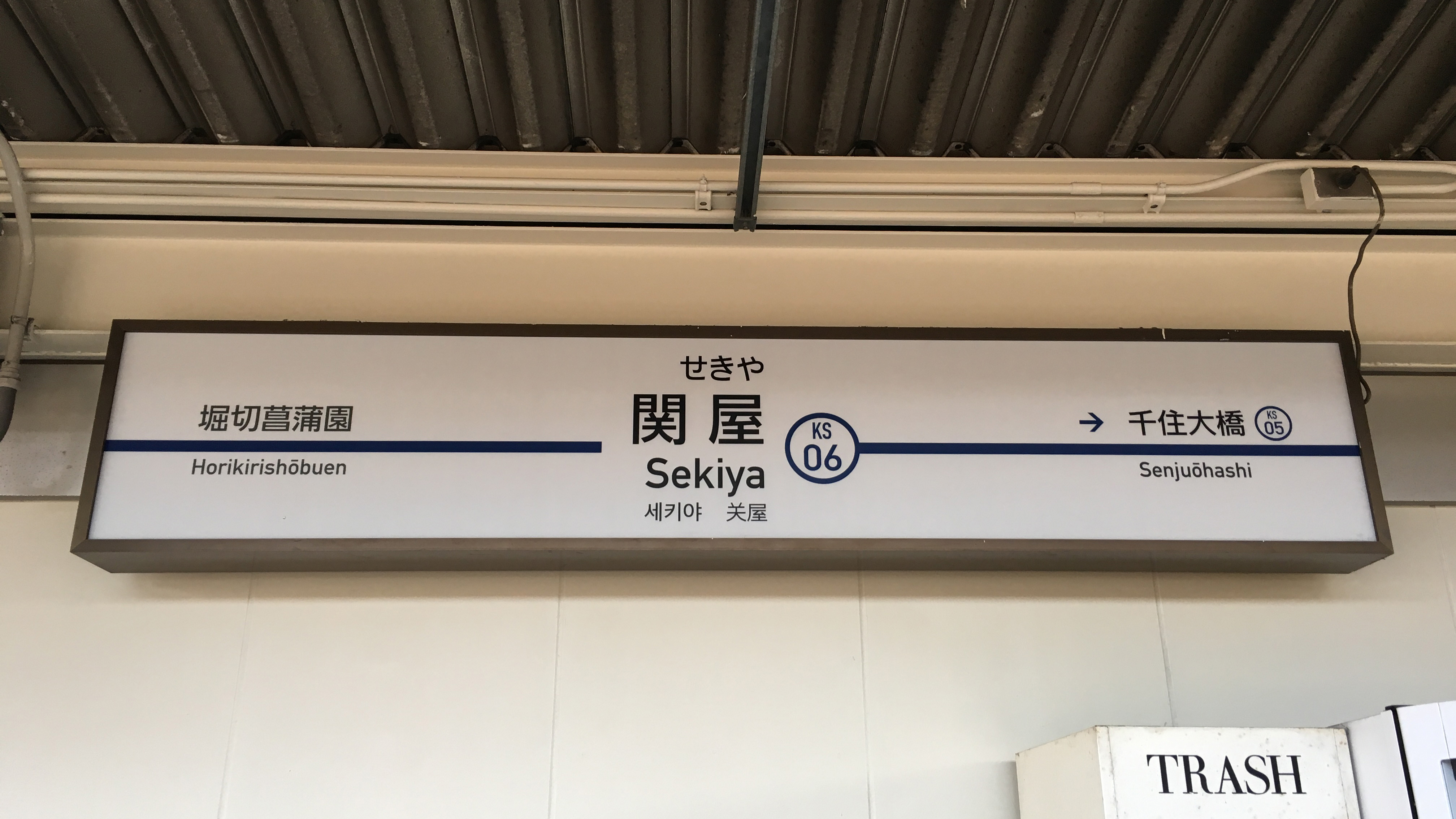 The station sign at Keisei Sekiya Station on the Keisei Main Line in Tokyo